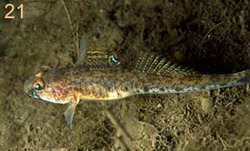 Picture of Norway goby (Pomatoschistus norvegicus)